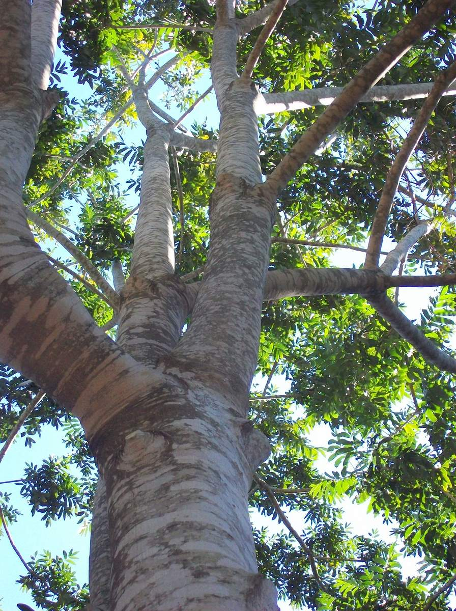 Signposted Dysoxylum rufum at Pearl Beach, NSW, Australia